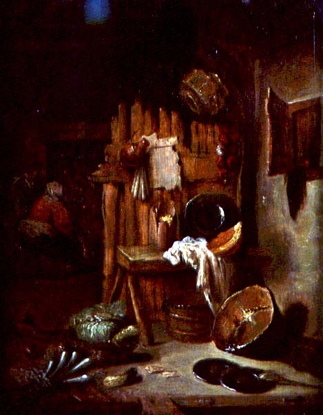 Peasant interior.